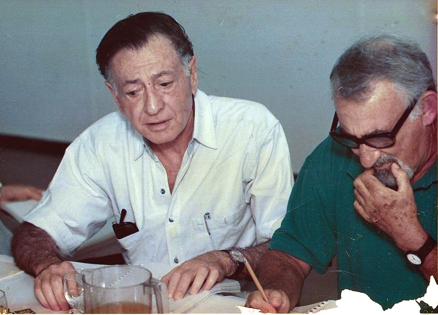 Avner Chiskiyahu and Nisim Aloni in a rehersal in HaBimah